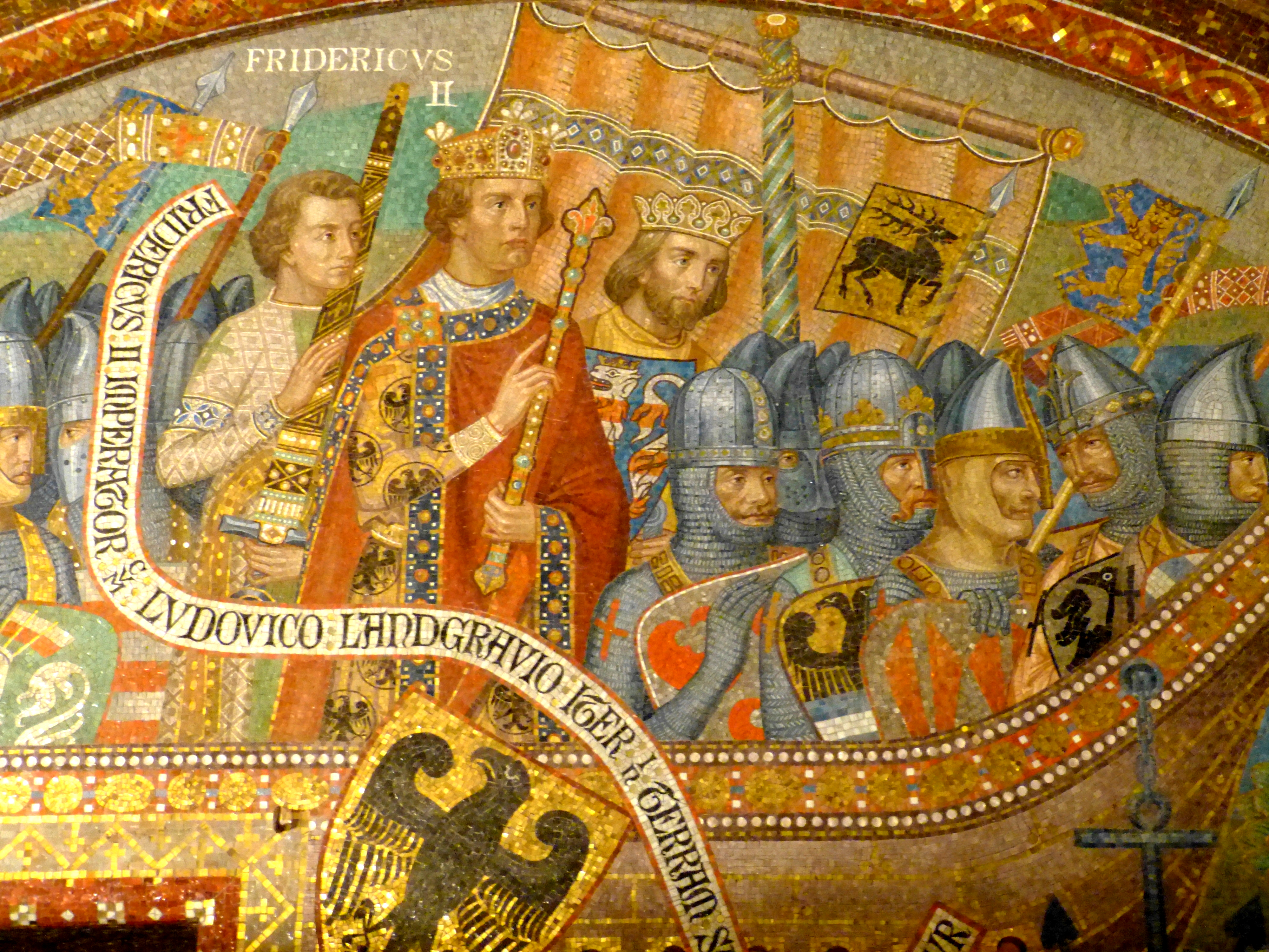 Wartburg ( Eisenach/Thuringia ). Chamber of Elisabeth of Hungary - Life of Elisabeth of Hungary on mosaics ( 1902-1906 ): Elisabeth' husband Louis IV of Thuringia on crusade with Frederick II, Holy Roman Emperor.